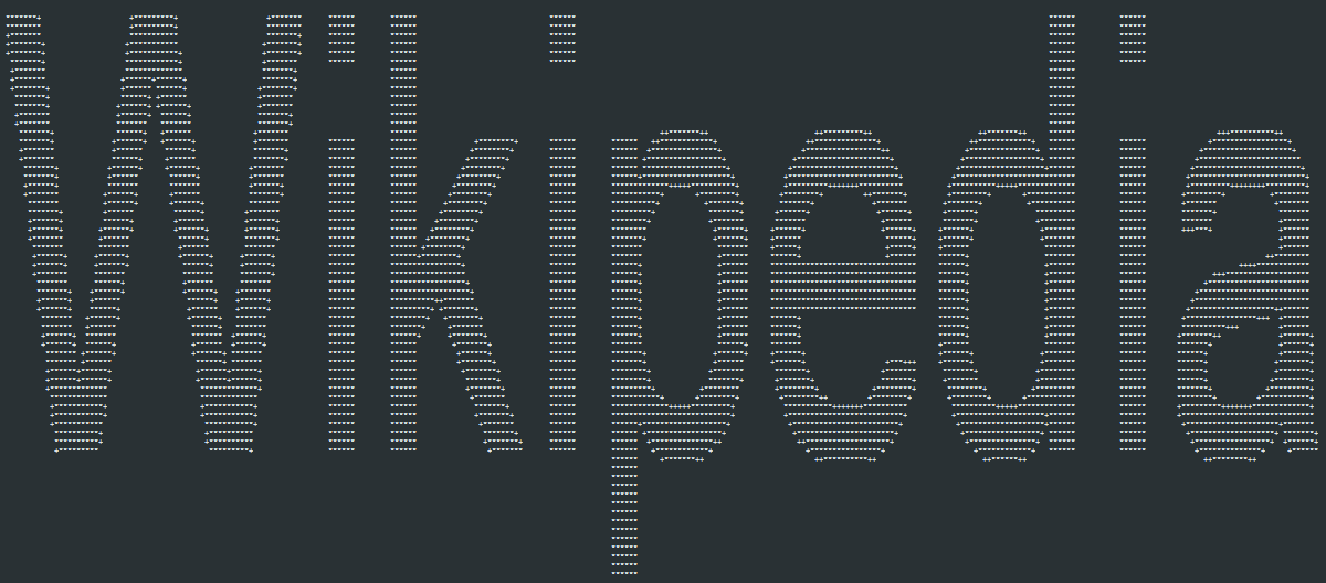 'Wikipedia' text rendered with FreeType 2.5.2 on a text file.